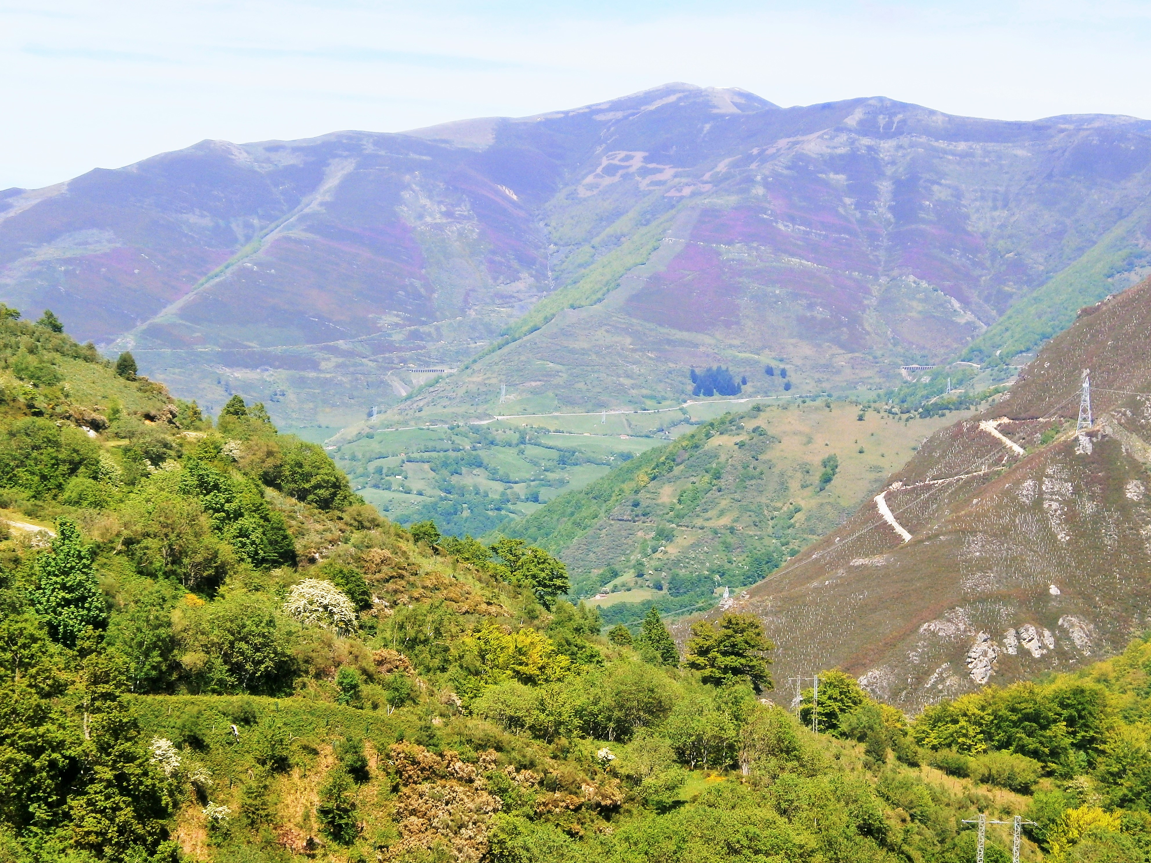 Macizo de las Ubiñas desde la Autopista del Huerna